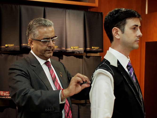 Mr. Raja Daswani of Raja Fashions fitting a customer for a Bespoke Suit